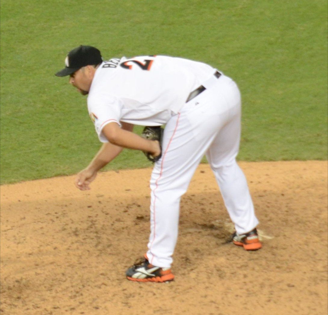 Heath Bell